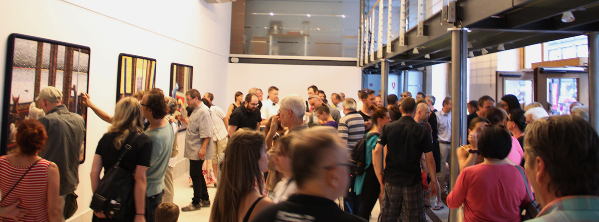 The opening of the exhibition "A Dog's Life" by Vladimir Leben and Ercigoj Art at Gallery Kresija in Ljubljana, July 21, 2015